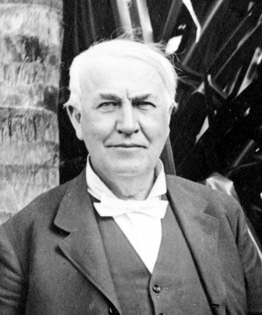 Edison's home in Ft. Myers, Florida